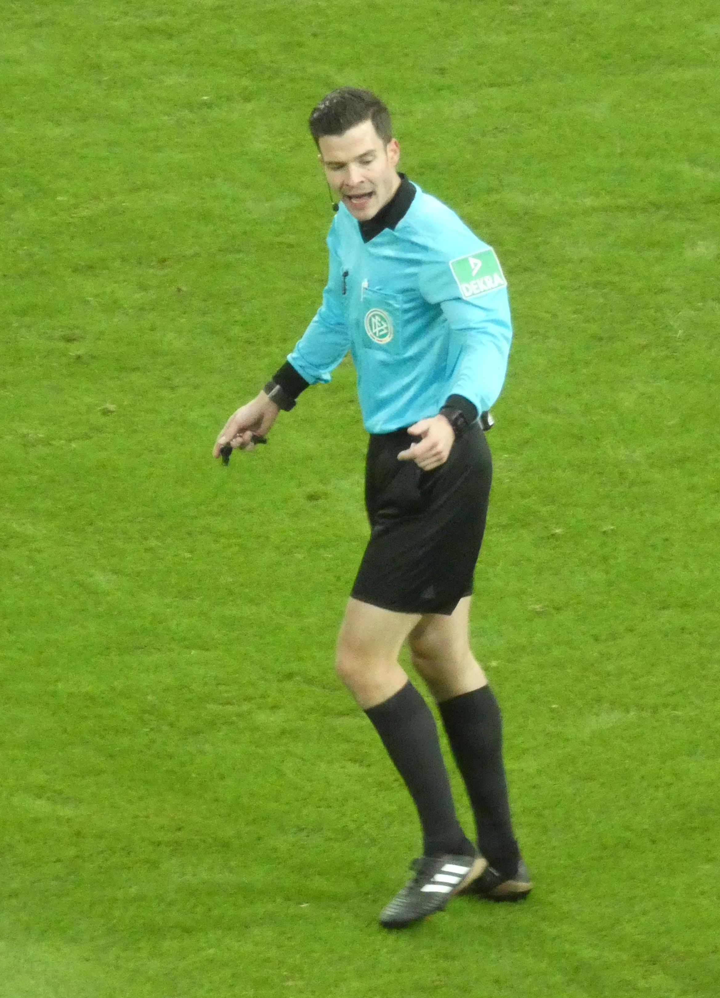 German soccer referee Harm Osmers, 2018